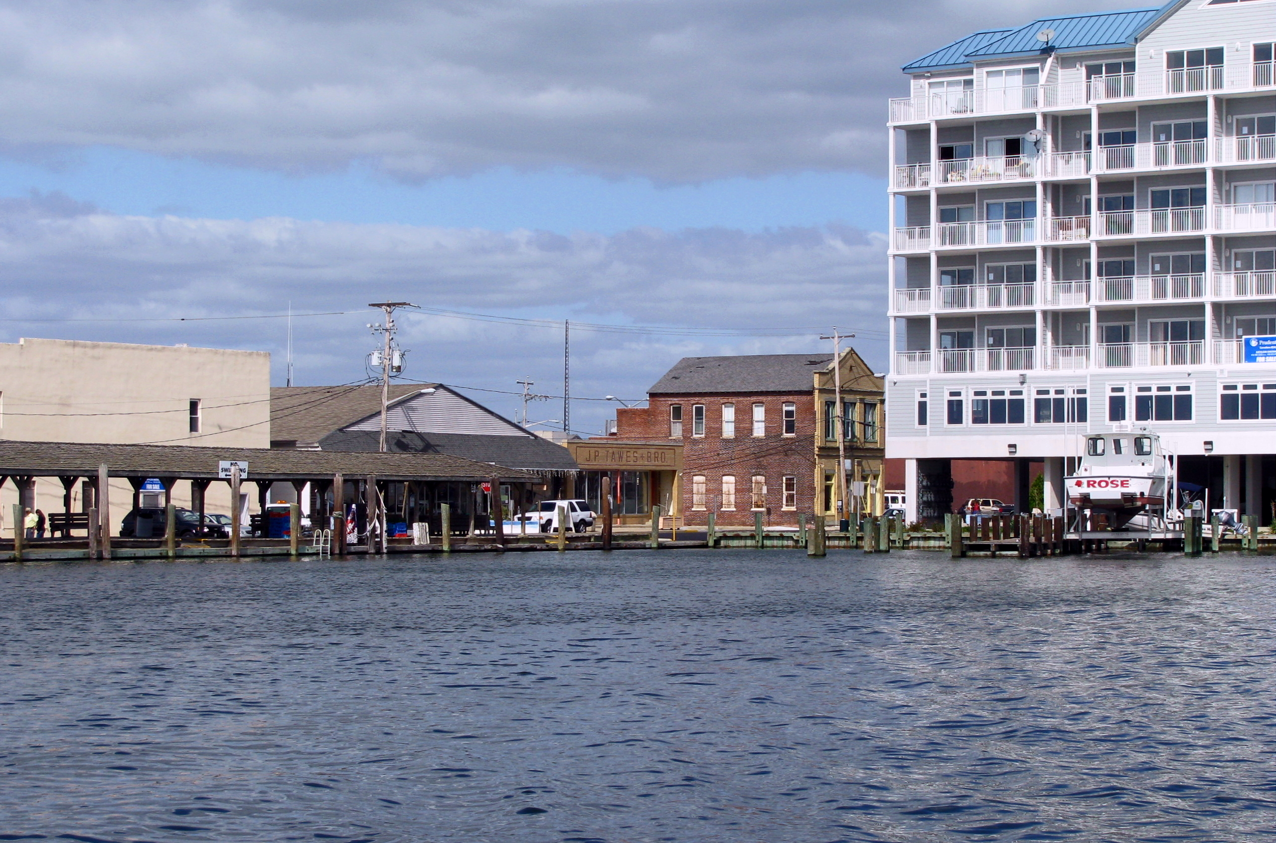 The gray building to the left of Taws Hardware Store was Dewey "Popeye" Landon's second-hand shop. The Kozy Koner Diner was torn down for the new condo.